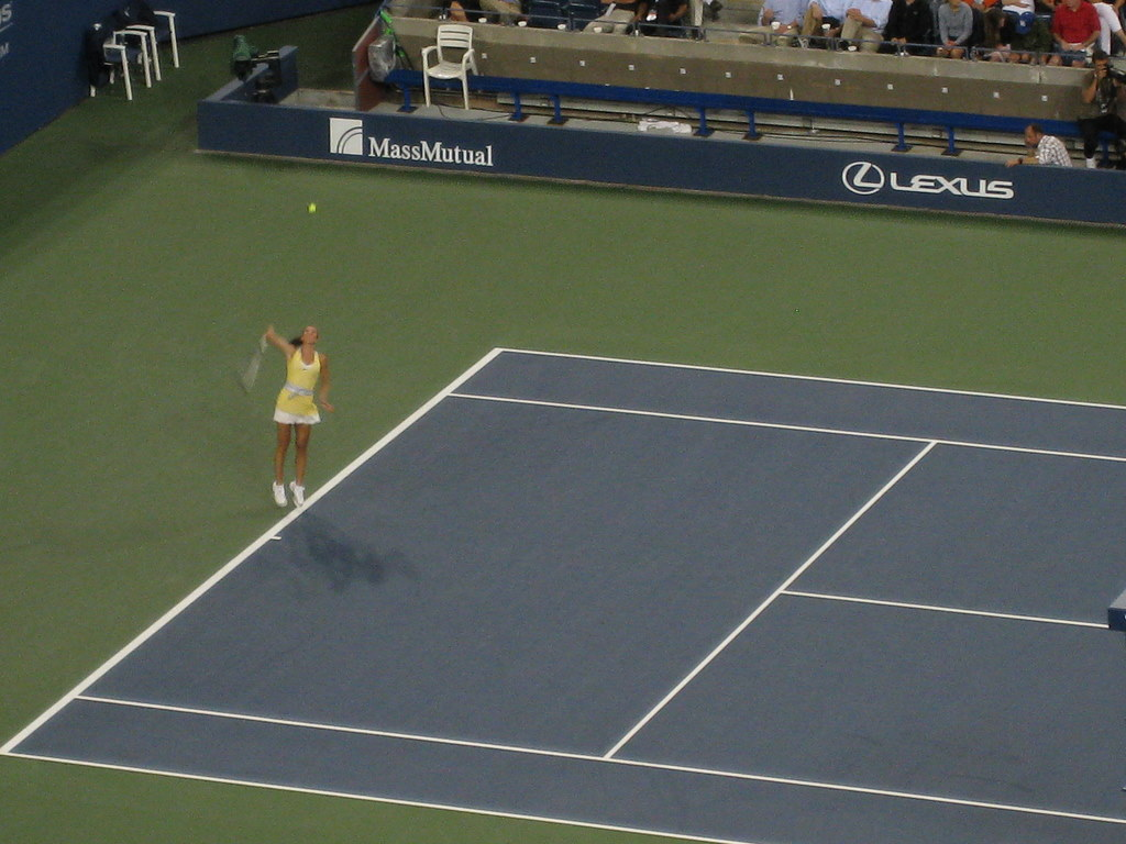 Jelena Jankovic on court at US Open 2008